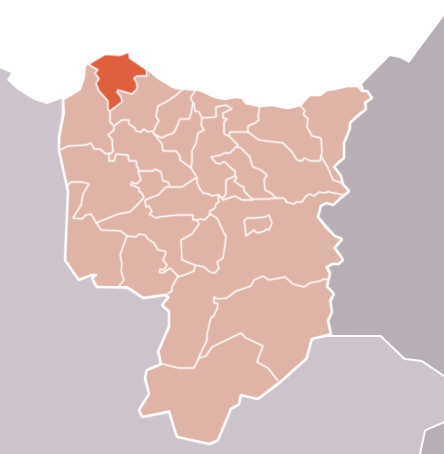 Oulad Anghar